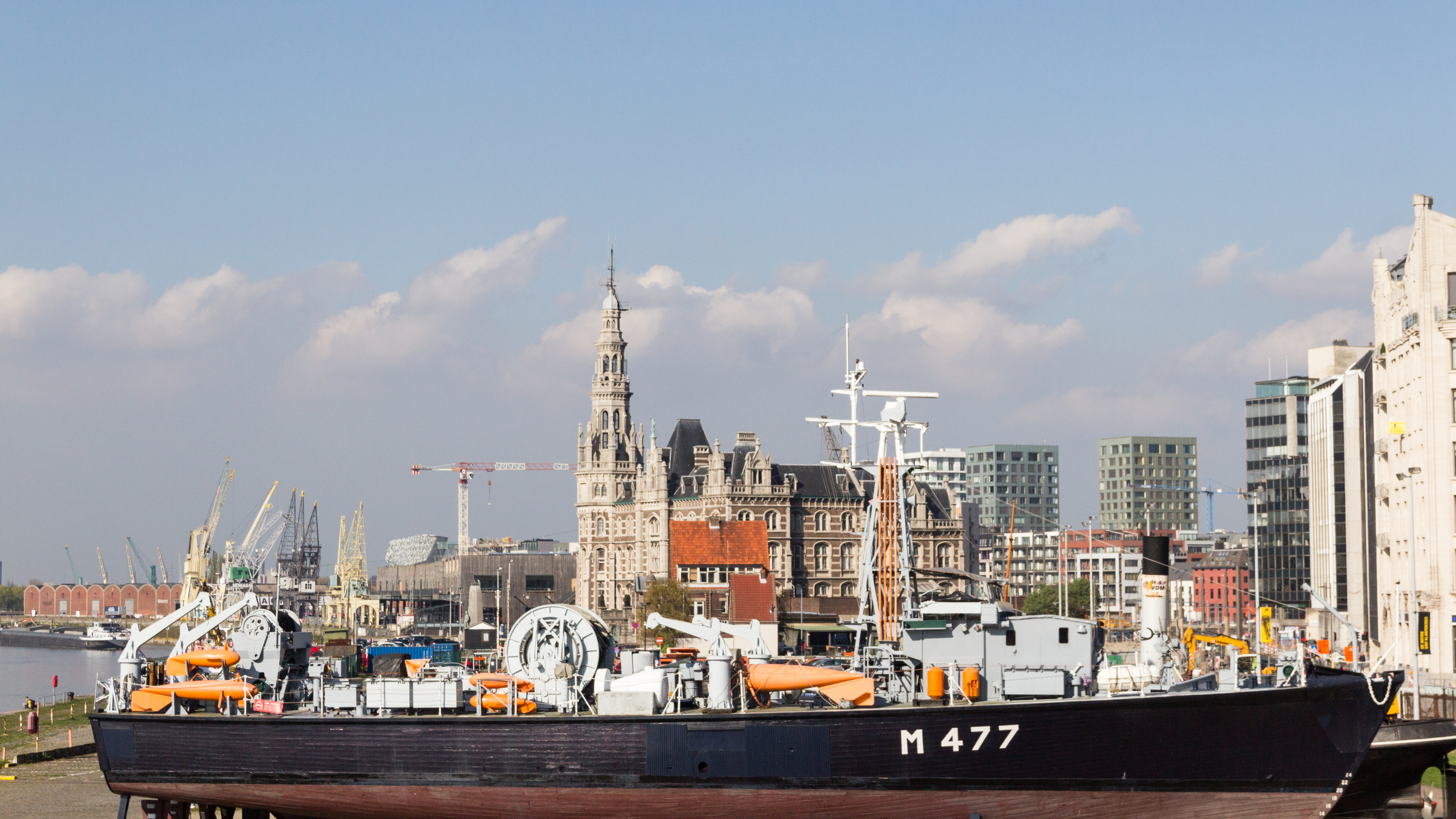 A ship and a skyline in Antwerp